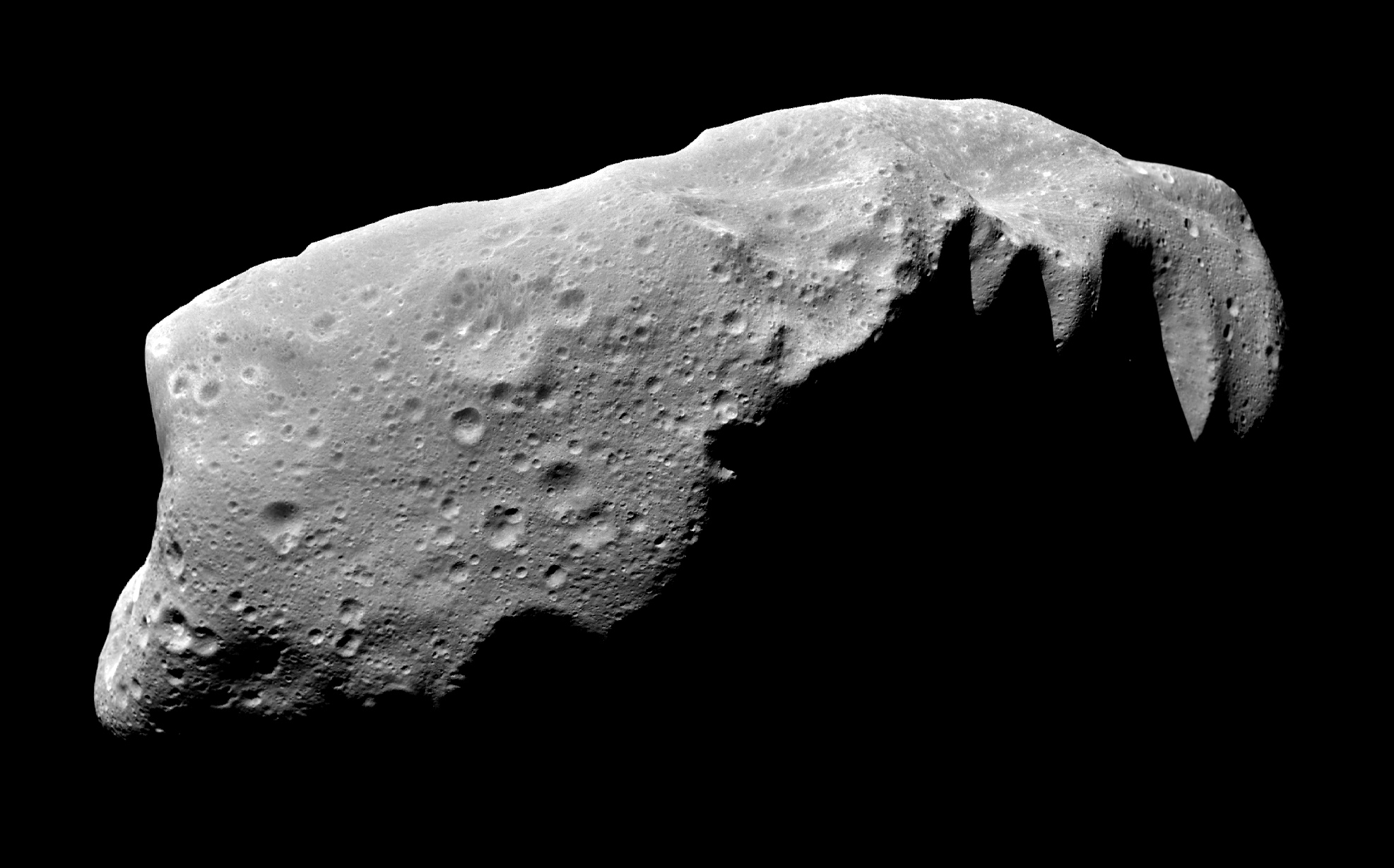 This view of the asteroid en:243 Ida is a mosaic of five image frames acquired by the Galileo spacecraft's solid-state imaging system at ranges of 3,057 to 3,821 kilometers (1,900 to 2,375 miles) on August 28, 1993, about 3-1/2 minutes before the spacecraft made its closest approach to the asteroid. Galileo flew by Ida at a relative velocity of 12.4 km/sec (28,000 mph). The south pole is believed to be in the darkside near the middle of the asteroid. The camera's clear filter was used. Spatial resolution is 31 to 38 meters (roughly 100 feet) per pixel.